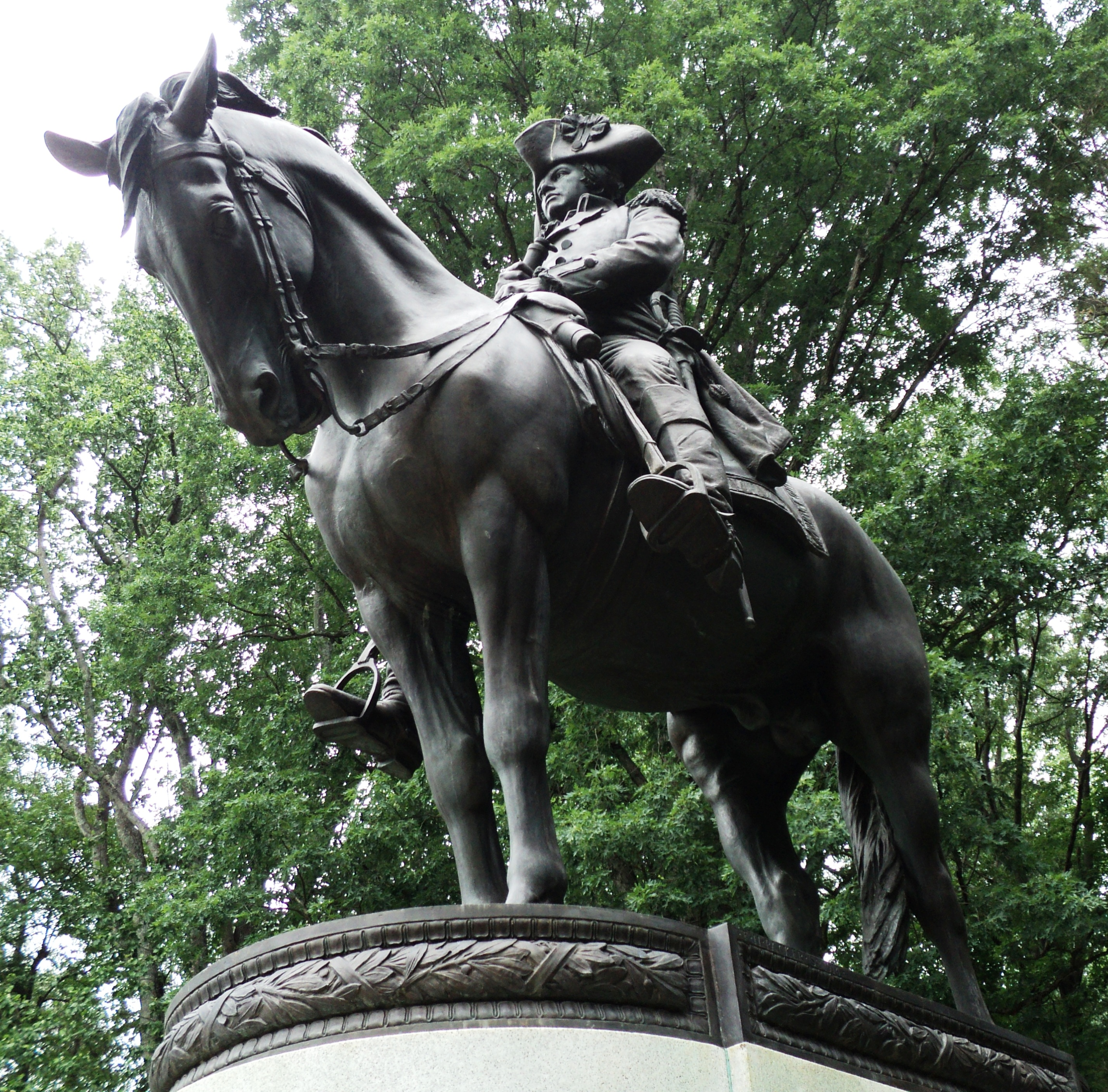 Monument to General Nathanael Greene of the Continental Army, hero of the Battle of Guilford Court House, present-day Greensboro, North Carolina. Monument erected in 1915. Sculptor: Francis Herman Packer.